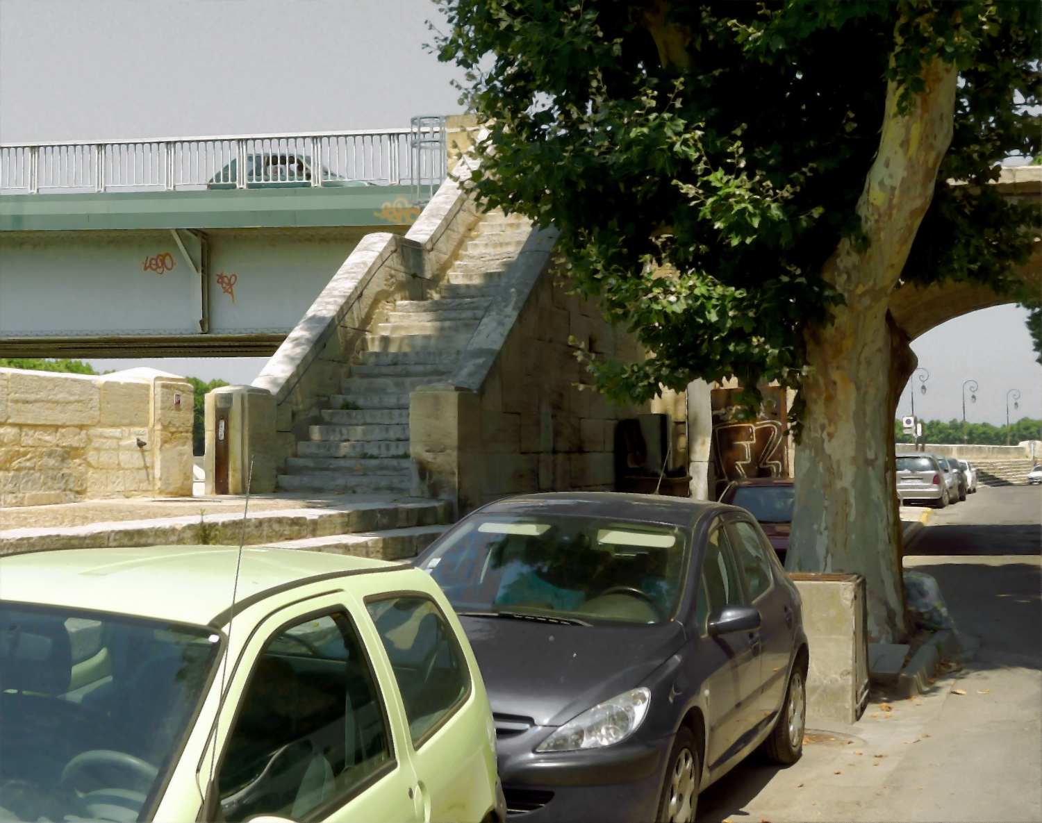 Trinquetaille bridge - Arles, France